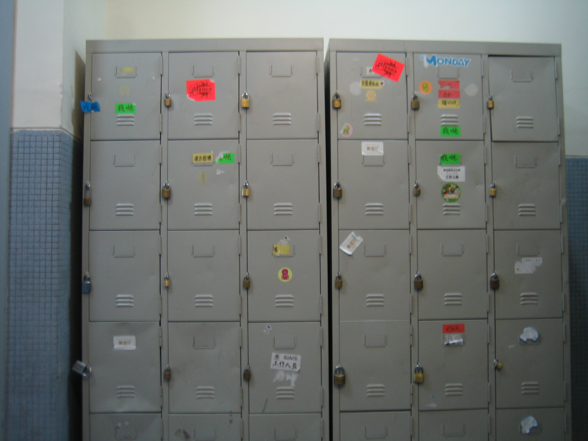 This image is the student lockers of SJACS campus, Hong Kong. If you have any questions about the licensing (like cc-by-sa, GFDL), or you want to republish the image without using the licensing shown as below, you are welcome to leave a message on the User Talk Page of my Chinese Wikipedia account. 中文（香港）: 這照片是香港九龍聖若瑟英文中學現有校舍學生儲物櫃。 如你對這照片版權許可協議 (例cc-by-sa, GFDL) 有疑問，或你想把照片不用以下的版權協議轉載，歡迎你到我在中文維基百科的用戶對話頁留言。